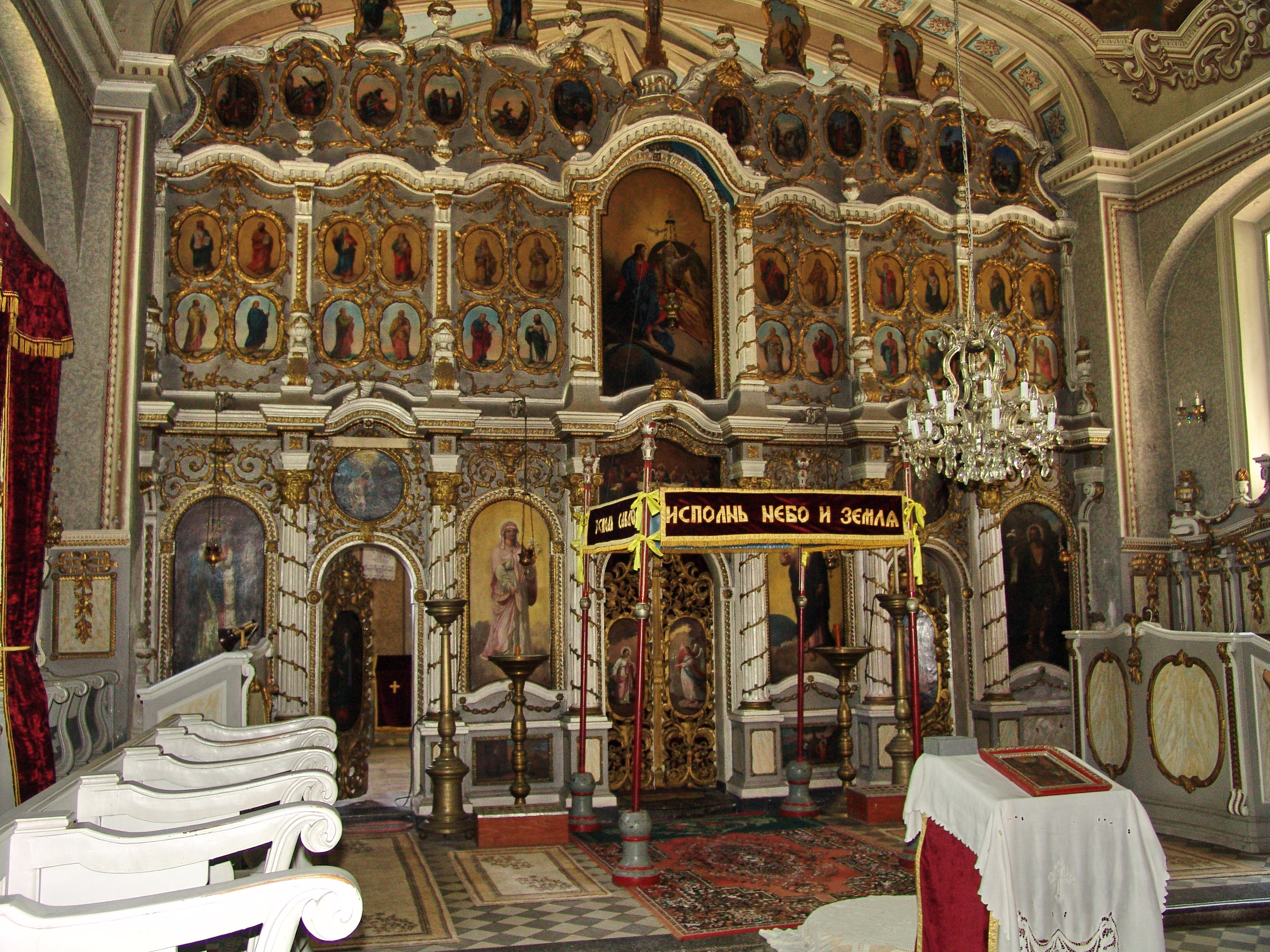 Serbian Orthodox church in Botoš - iconostasis